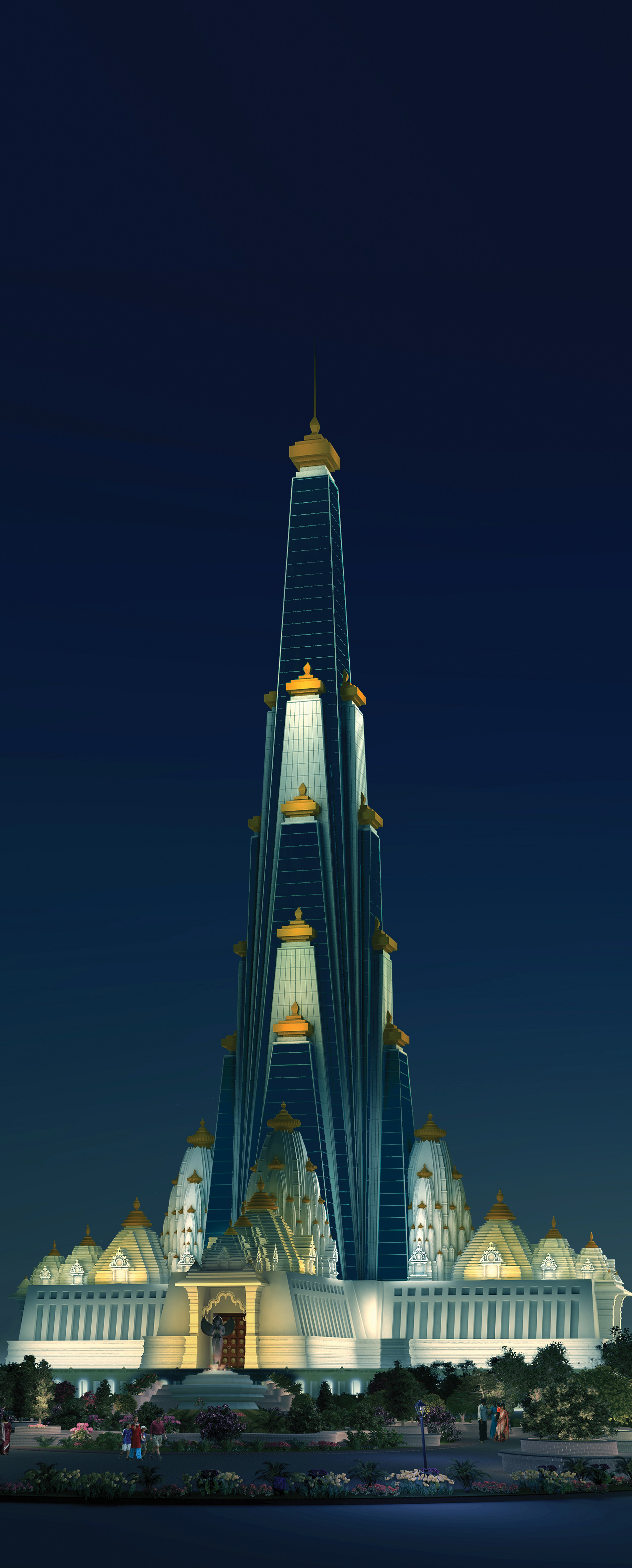 Vrindavan Chandrodaya Temple Render - Night View